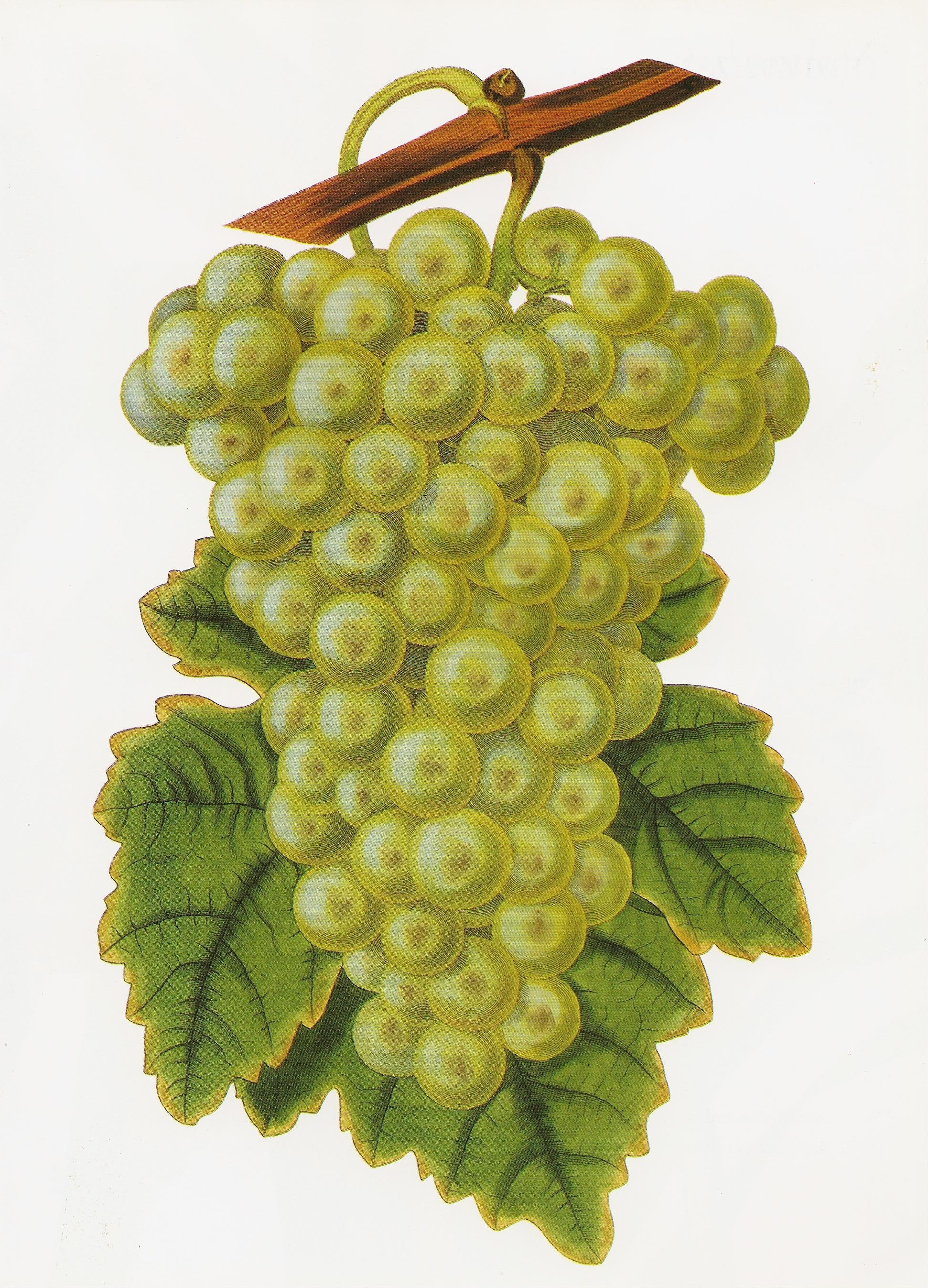 The 'Common Muscadine' grape, a hand-coloured engraving after a drawing by Augusta Innes Withers (1792-1869), from the first volume of John Lindley's Pomological Magazine (1827-1828)